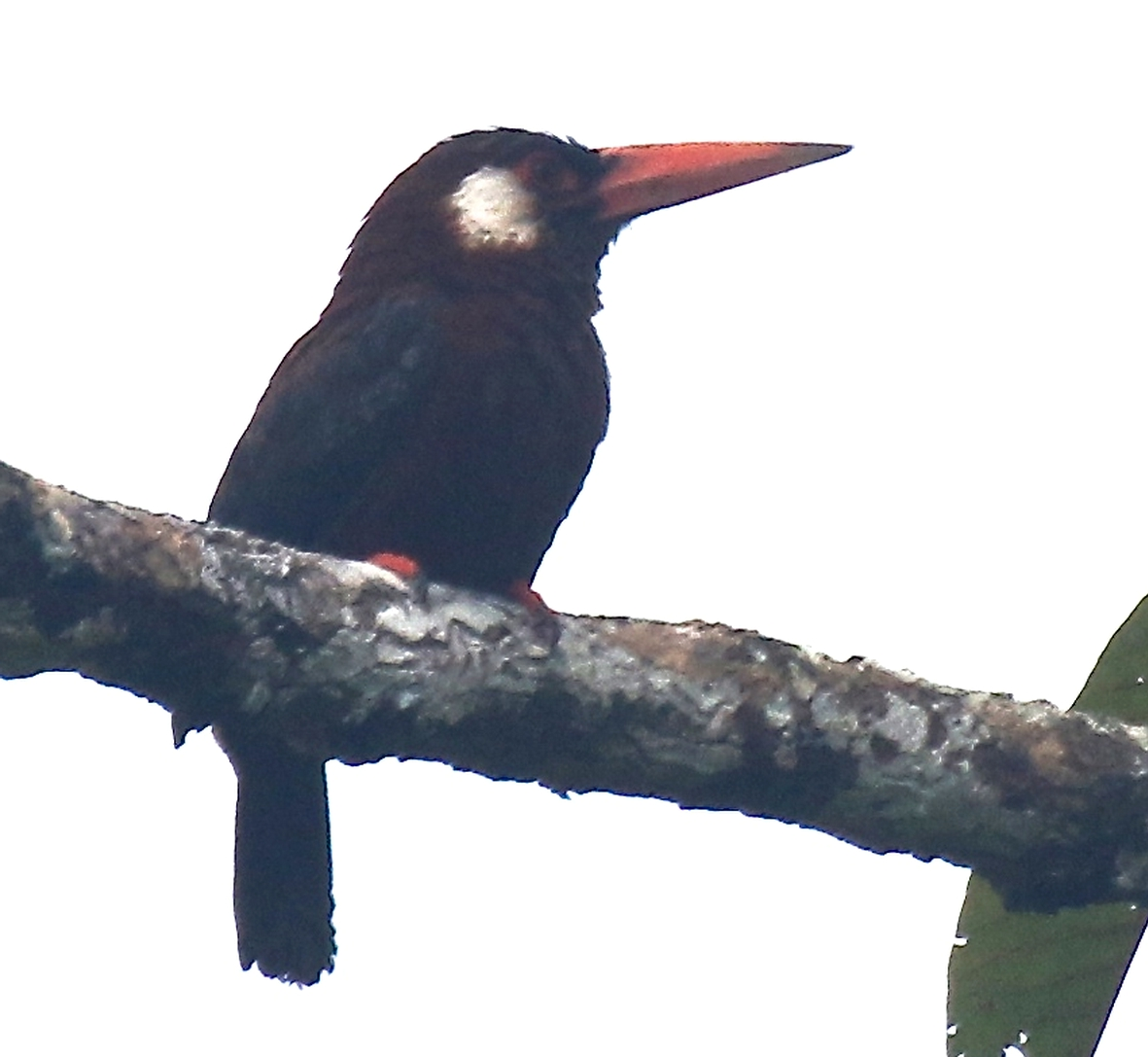 Sani Lodge - Ecuador